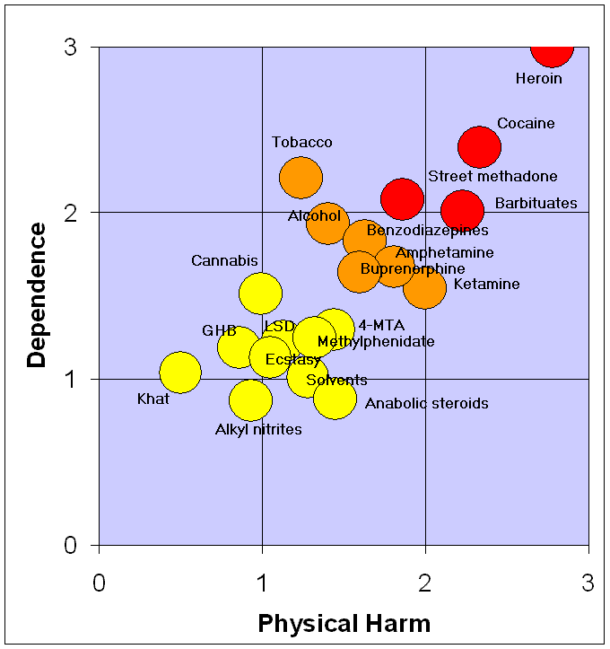 A rational scale to assess the harm of drugs. Data source is the March 24, 2007 article: Nutt, David, Leslie A King, William Saulsbury, Colin Blakemore. "Development of a rational scale to assess the harm of drugs of potential misuse" The Lancet 2007; 369:1047-1053.